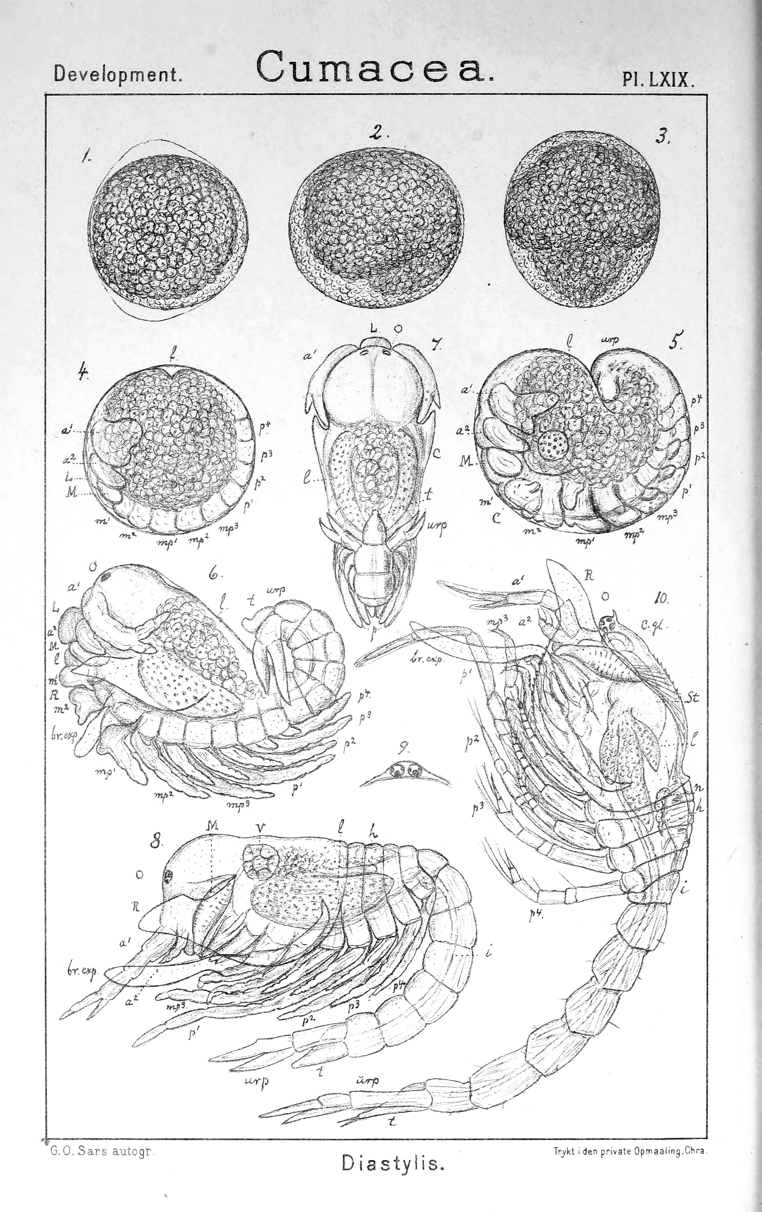 Plate LXIX from Sars, G. O., (1900). An account of the Crustacea of Norway: Cumacea, Bergen Museum.